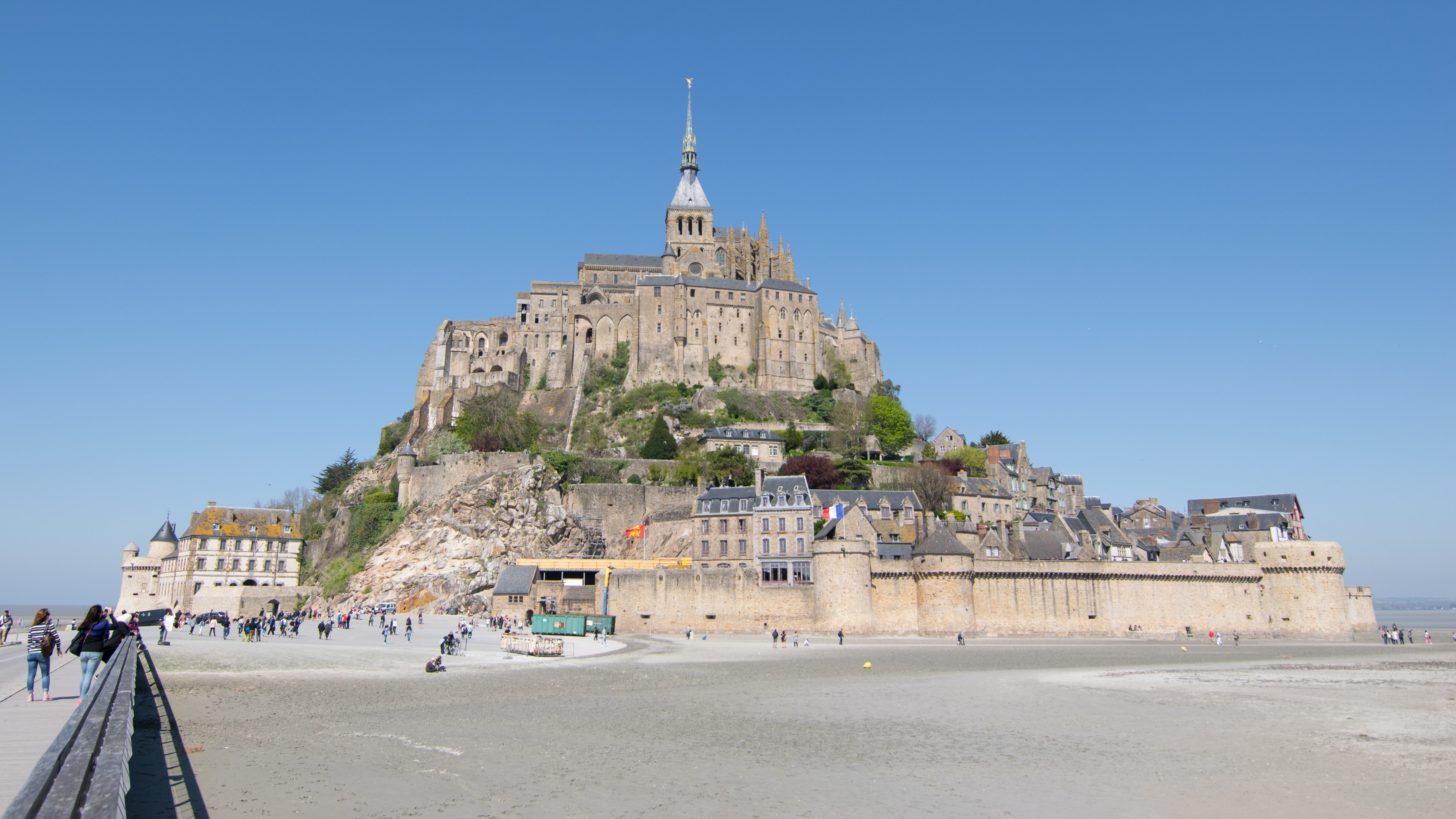 The Mont Saint-Michel seen from its new bridge, Normandy, France.